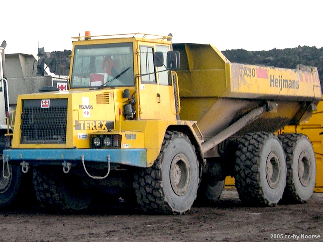 Dump truck. Photograph made on a building site in the Netherlands